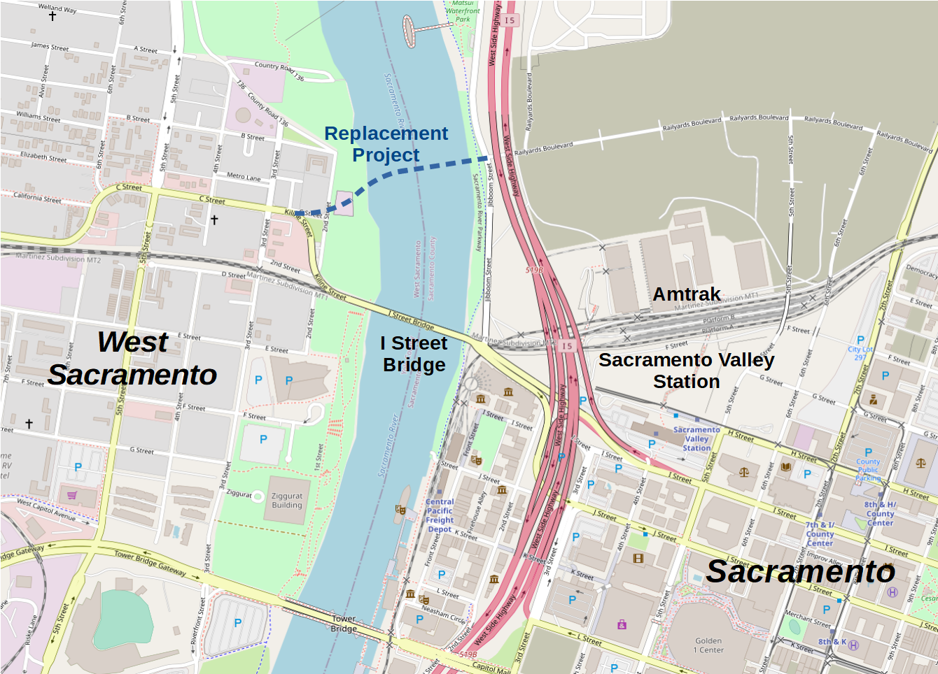 Location of I Street Bridge and the Replacement Project between West Sacramento ans Sacramento